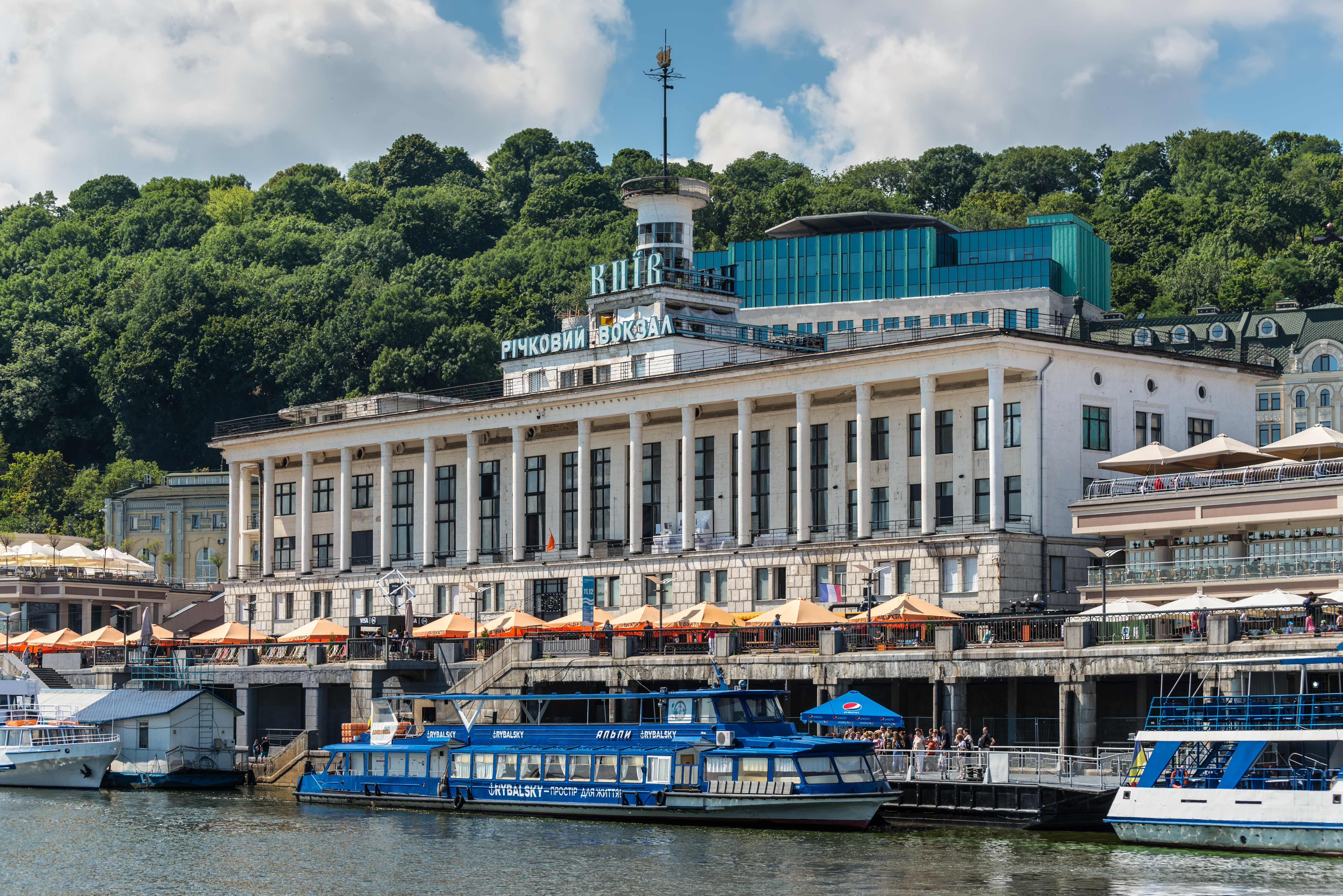 Kyiv, Ukraine - July 13, 2019: Facade of the Kyiv River Port (River Station) in Kyiv, Ukraine. Ships moored on the banks of the Dnipro River.